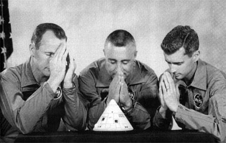 The astronaut crew of Apollo 1 praying, with a model of the Command Module spacecraft on the table in front of them. From left to right: Ed White, Gus Grissom, and Roger Chaffee.